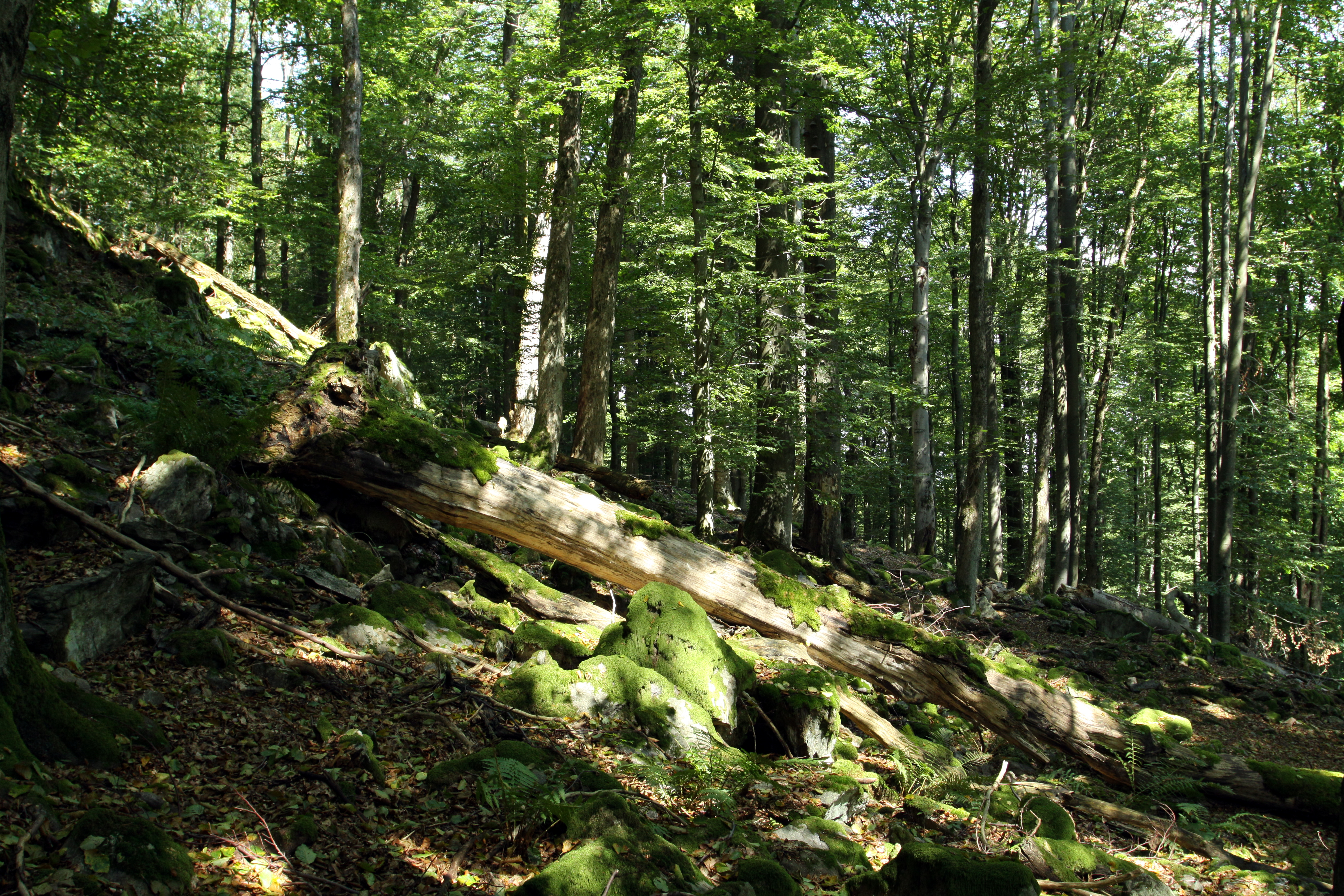 Nature reserce Nad Hutí in Domažlice District, Czech Republic